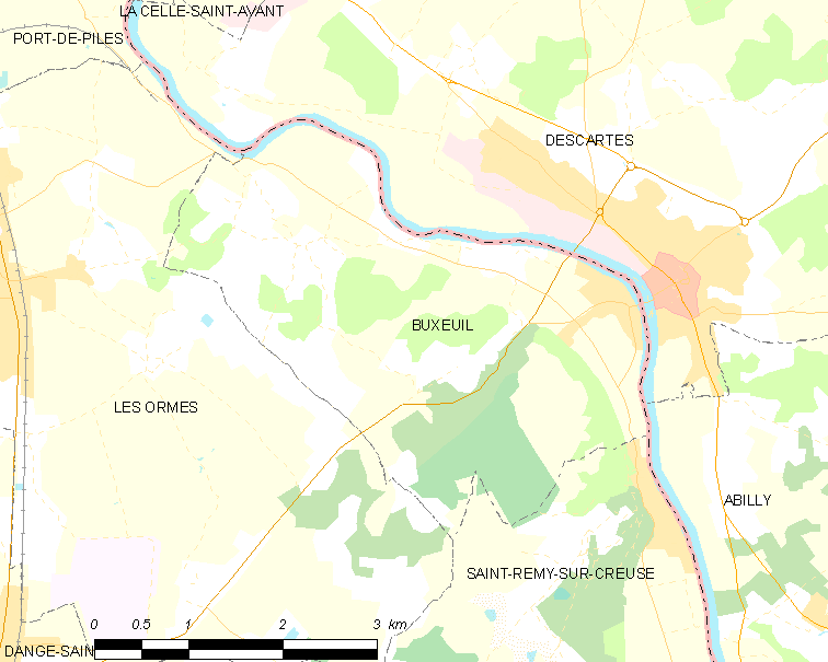 Map of French municipality Buxeuil